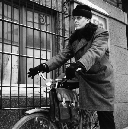 Photograph of the Finnish writer and teacher Aku-Kimmo Ripatti (1931–1994).